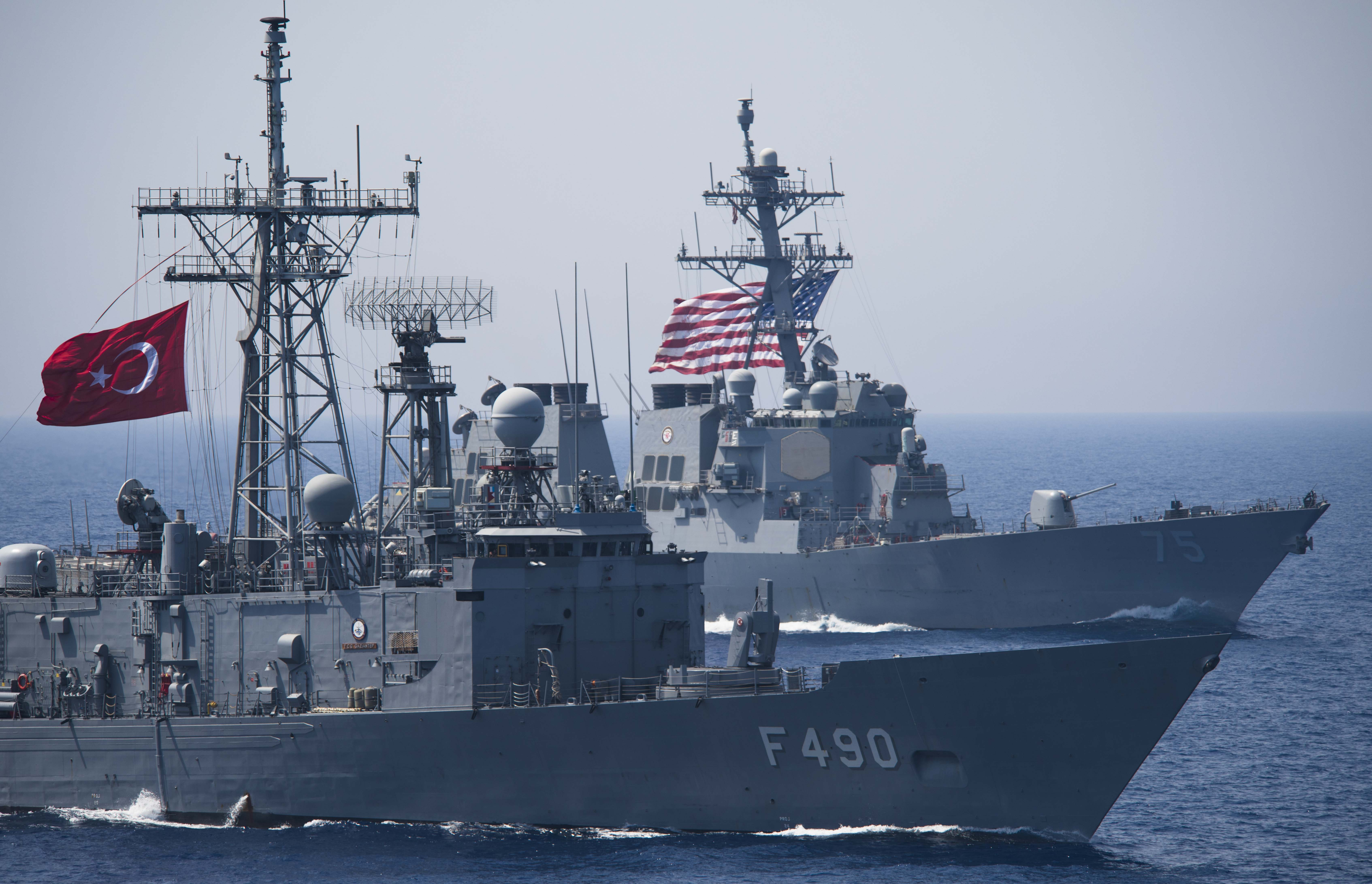 MEDITERRANEAN SEA (June 25, 2016) The Turkish G-Class frigate TCG Gaziantep (F-490) is underway in formation with the Arleigh Burke-class guided-missile destroyer USS Donald Cook (DDG 75) during an exercise with the Turkish and United States navies. (U.S. Navy photo by Mass Communication Specialist 3rd Class J. Alexander Delgado/Released) 160625-N-OR652-213 Join the conversation: navylive.dodlive.mil